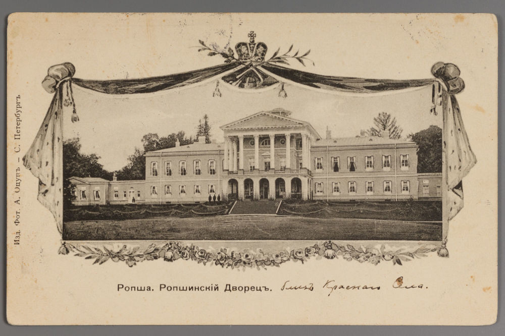 Ropsha Palace in Leningrad Oblast.